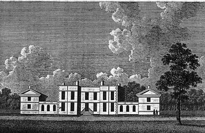 Shardlow Hall was a school in Shardlow a village seven miles south of Derby in the English Midlands. It was founded by B.O.Corbett as a preparatory school for boys. Notable students include John Harris who wrote under the name John Wyndham